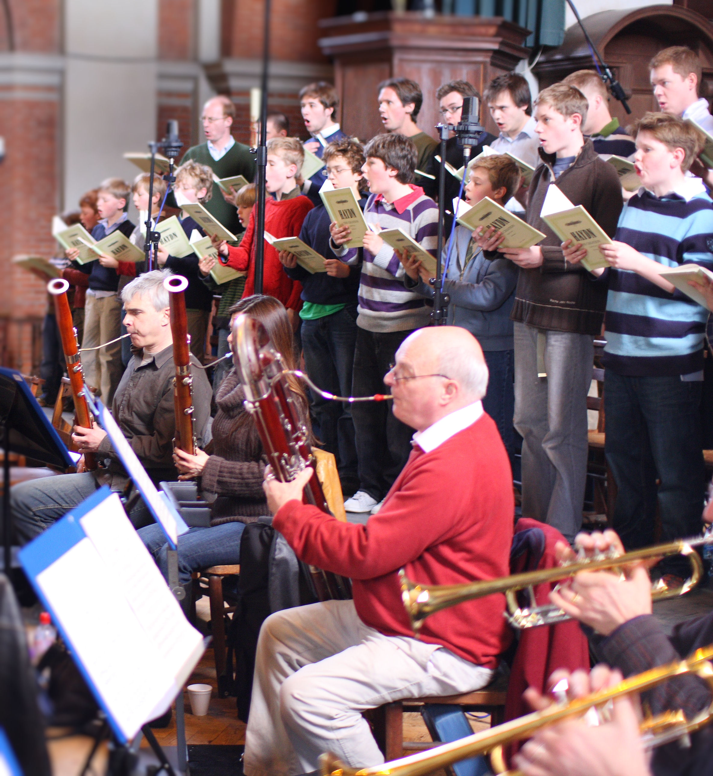 Oxford Philomusica & New College Choir recording Haydn Creation